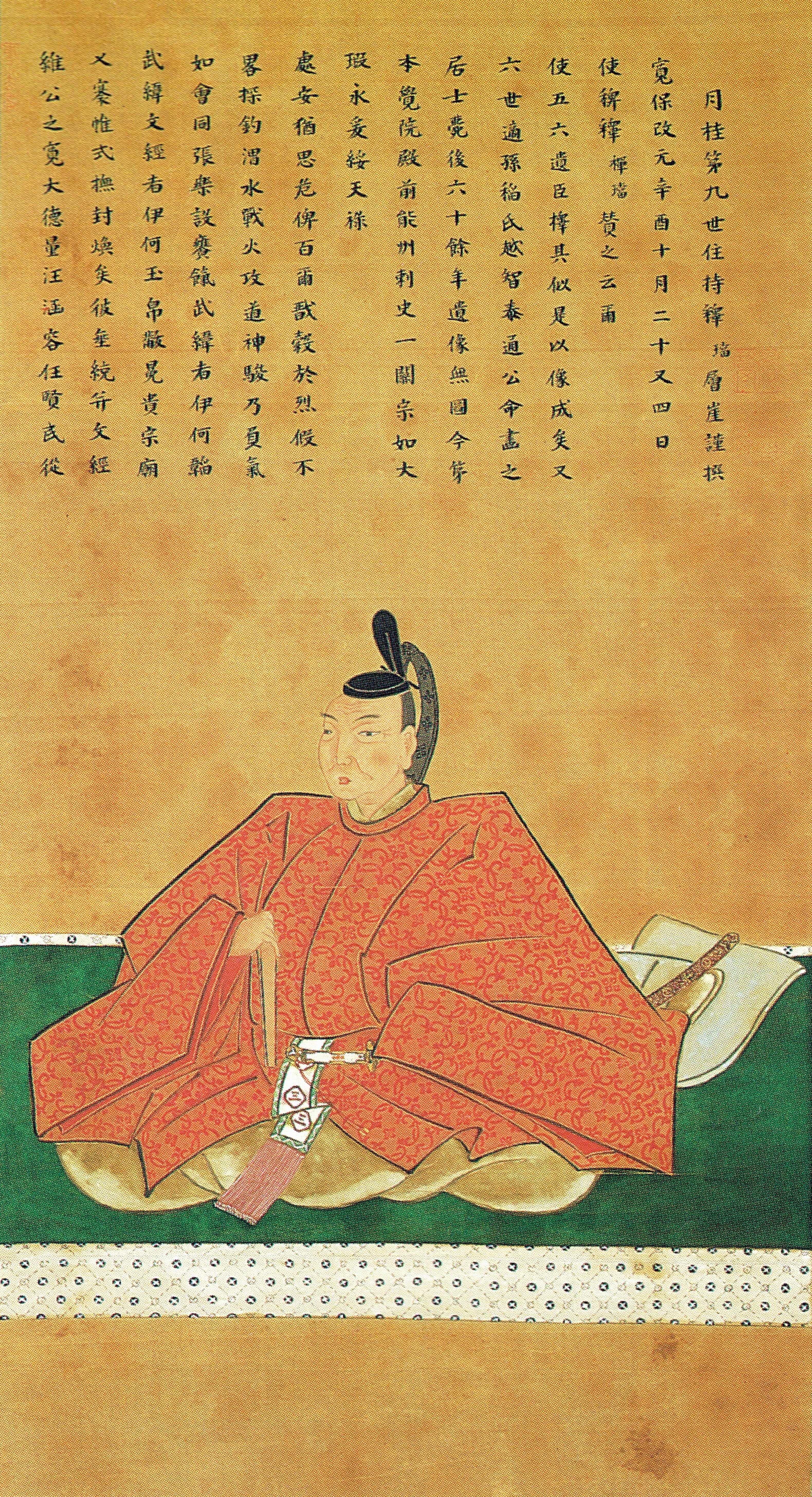 Portrait of Inaba Yoshimichi, owned by Gekkei-ji Temple in Usuki, Oita, Japan